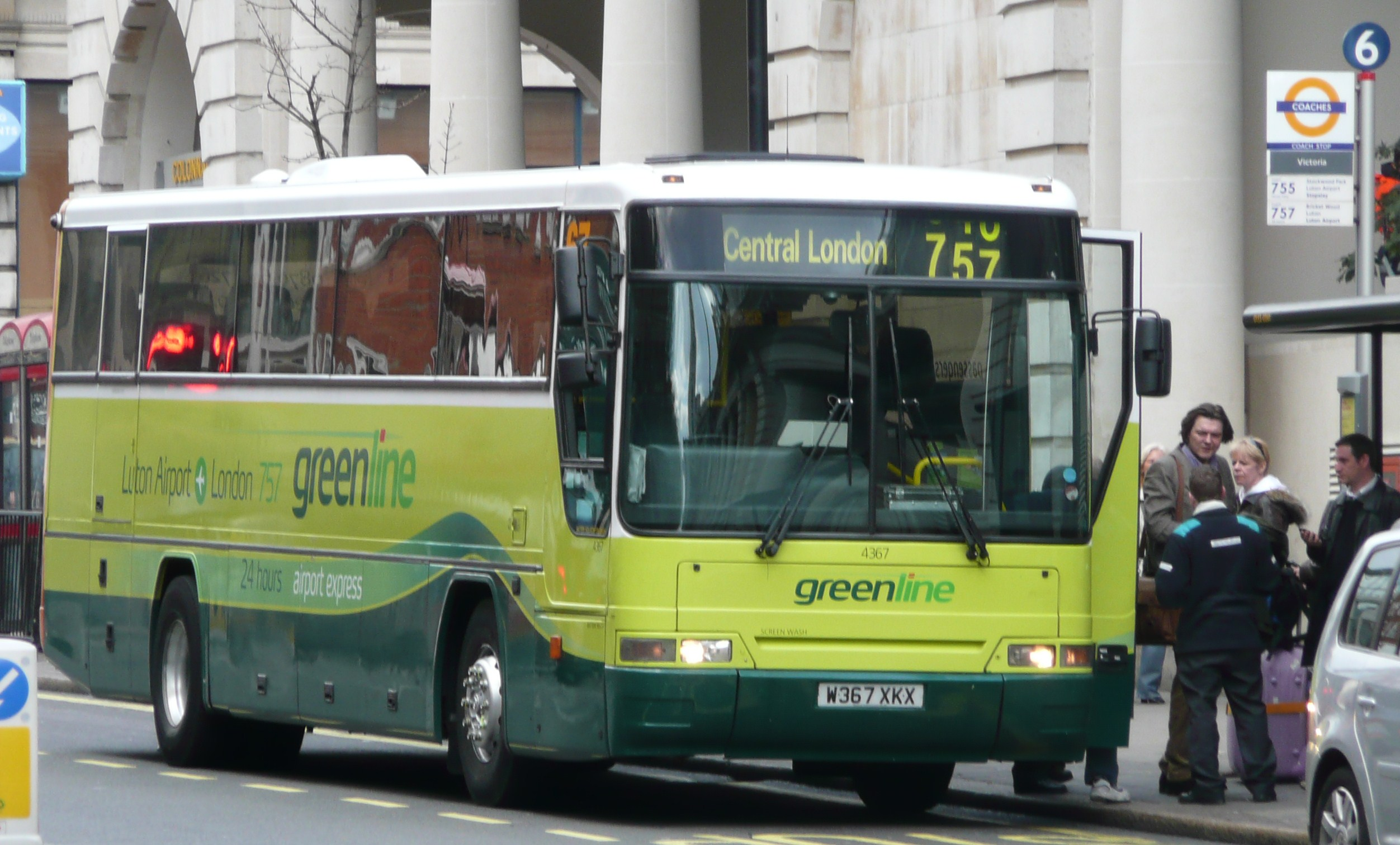 A Green Line Plaxton Coach in Buckingham Palace Road, on route 757.